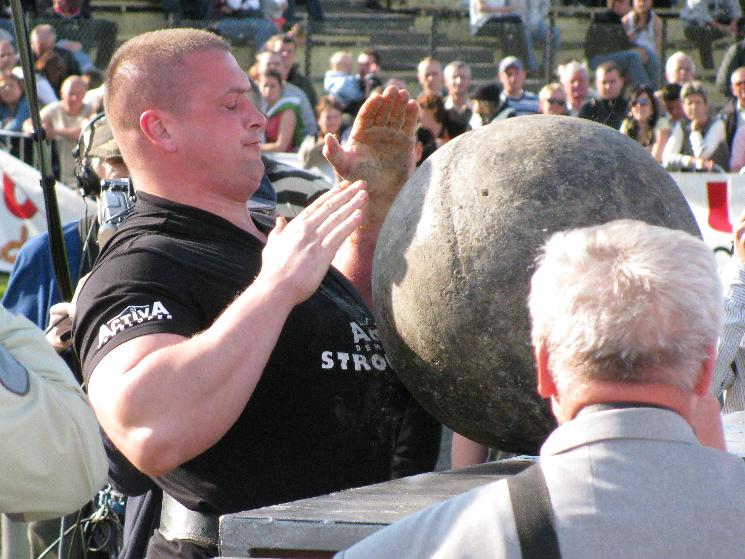 Tomasz Nowotniak - a strength athlete from Poland at Atlas Stones.